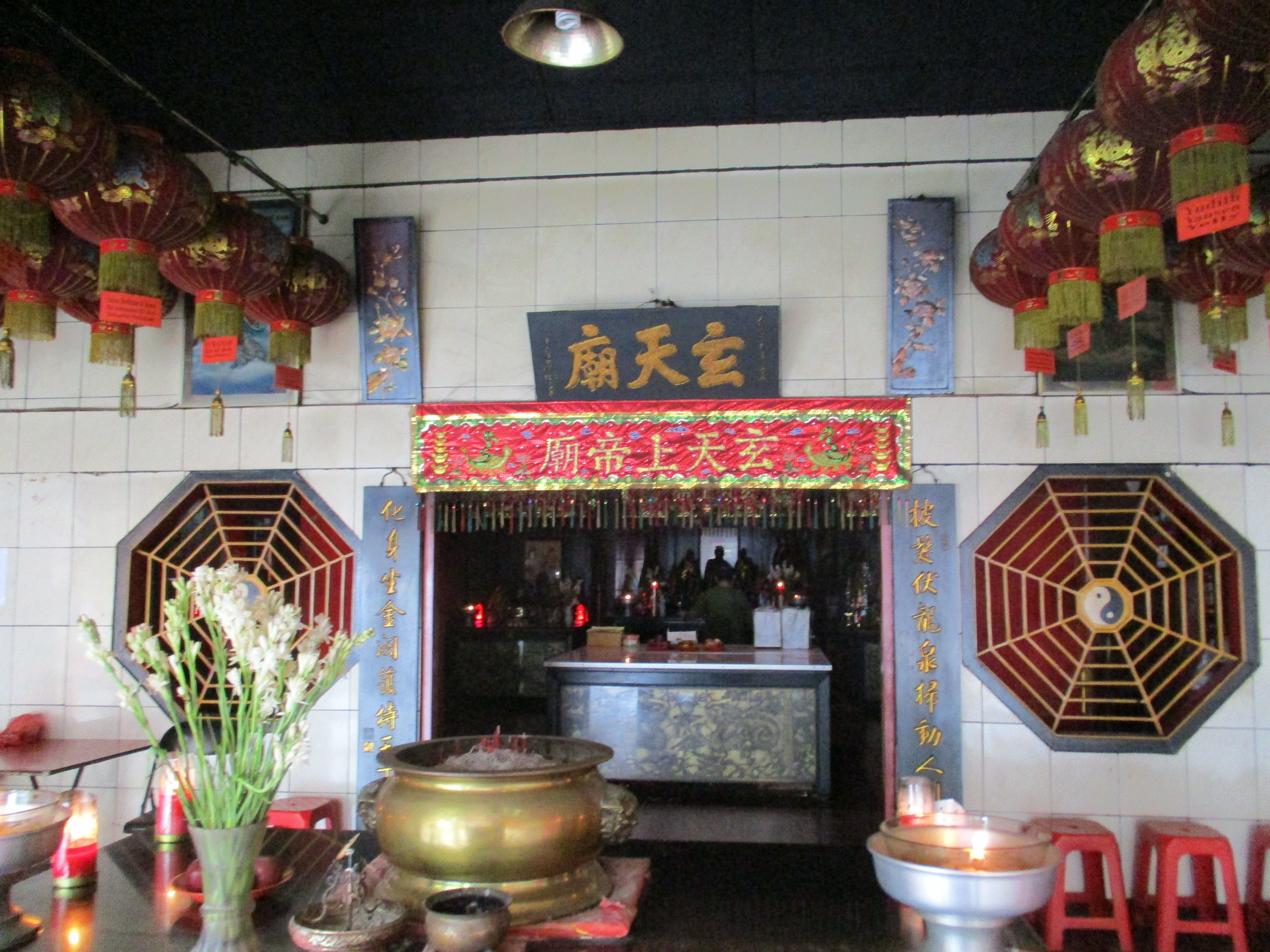 Hian thian siang tee Temple, Jakarta